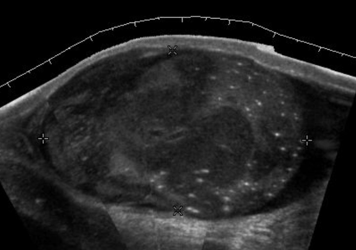 Scrotal ultrasonography of primary lymphoma.